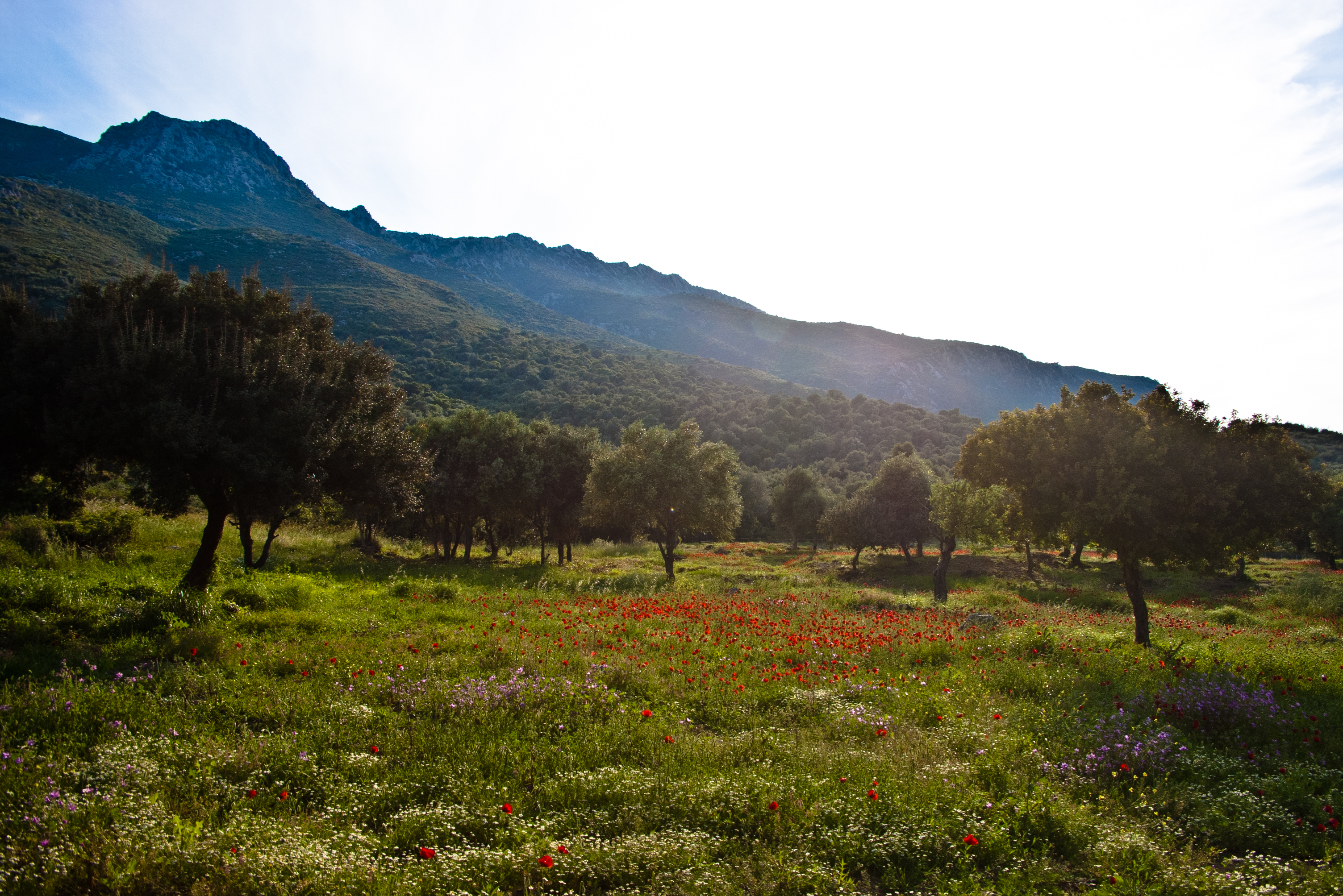 The archaeological site of Troizen, Greece.